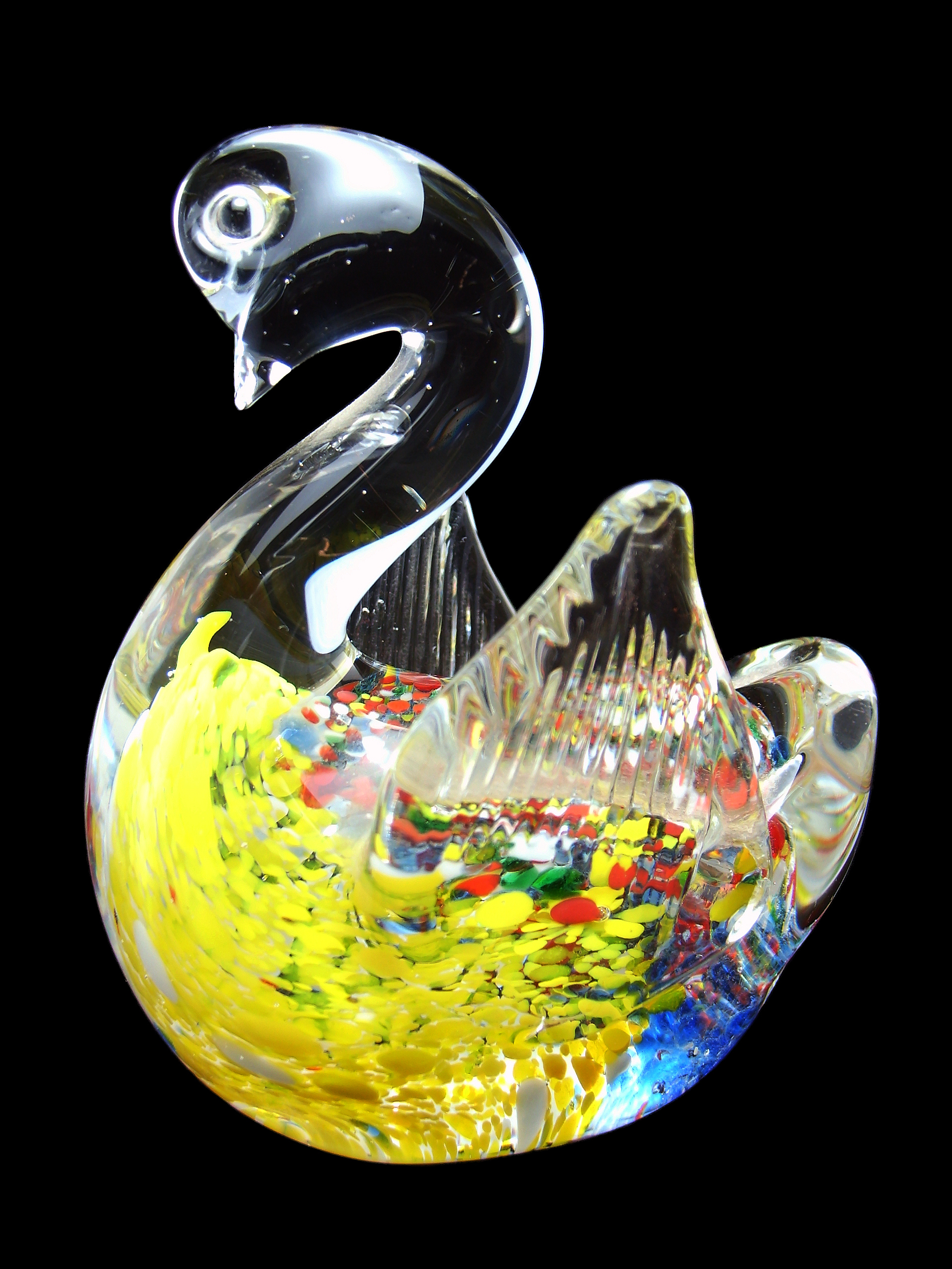 Swan made of glass.